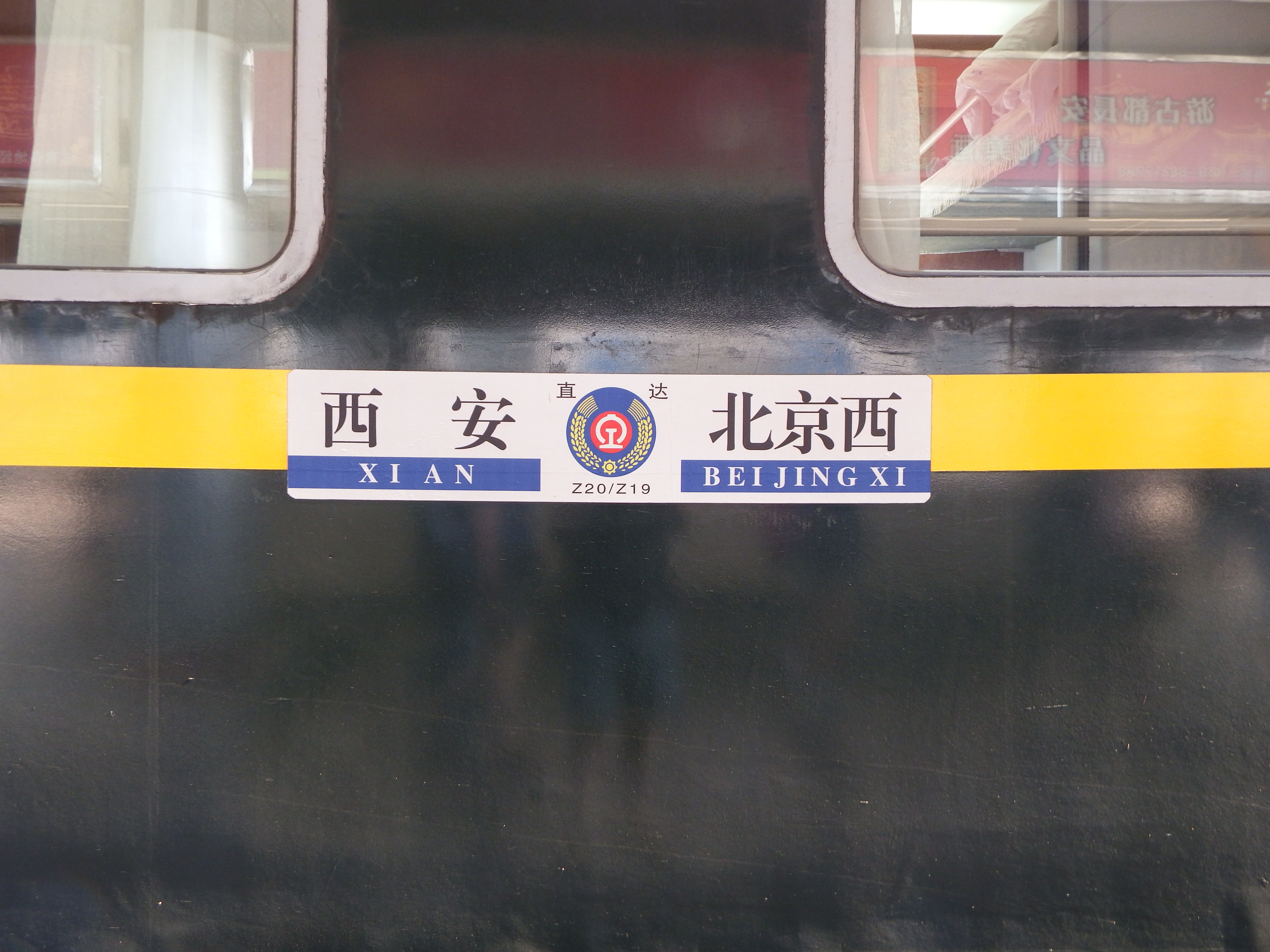 Through China by Train